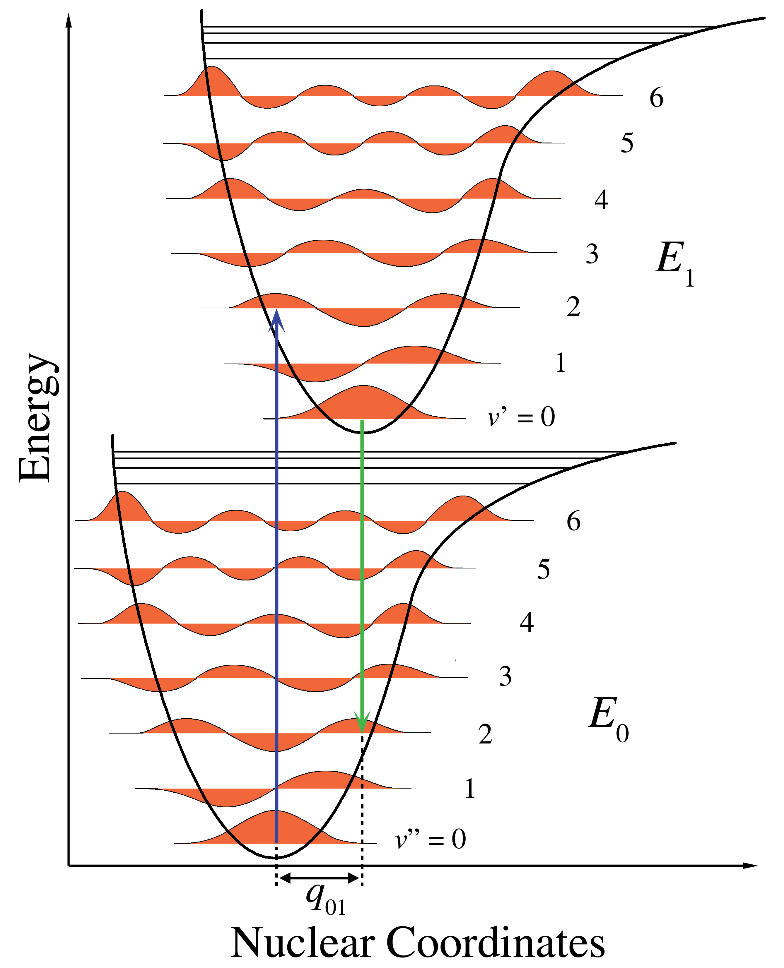 Depiction of Franck Condon principle in absorption and fluorescence.